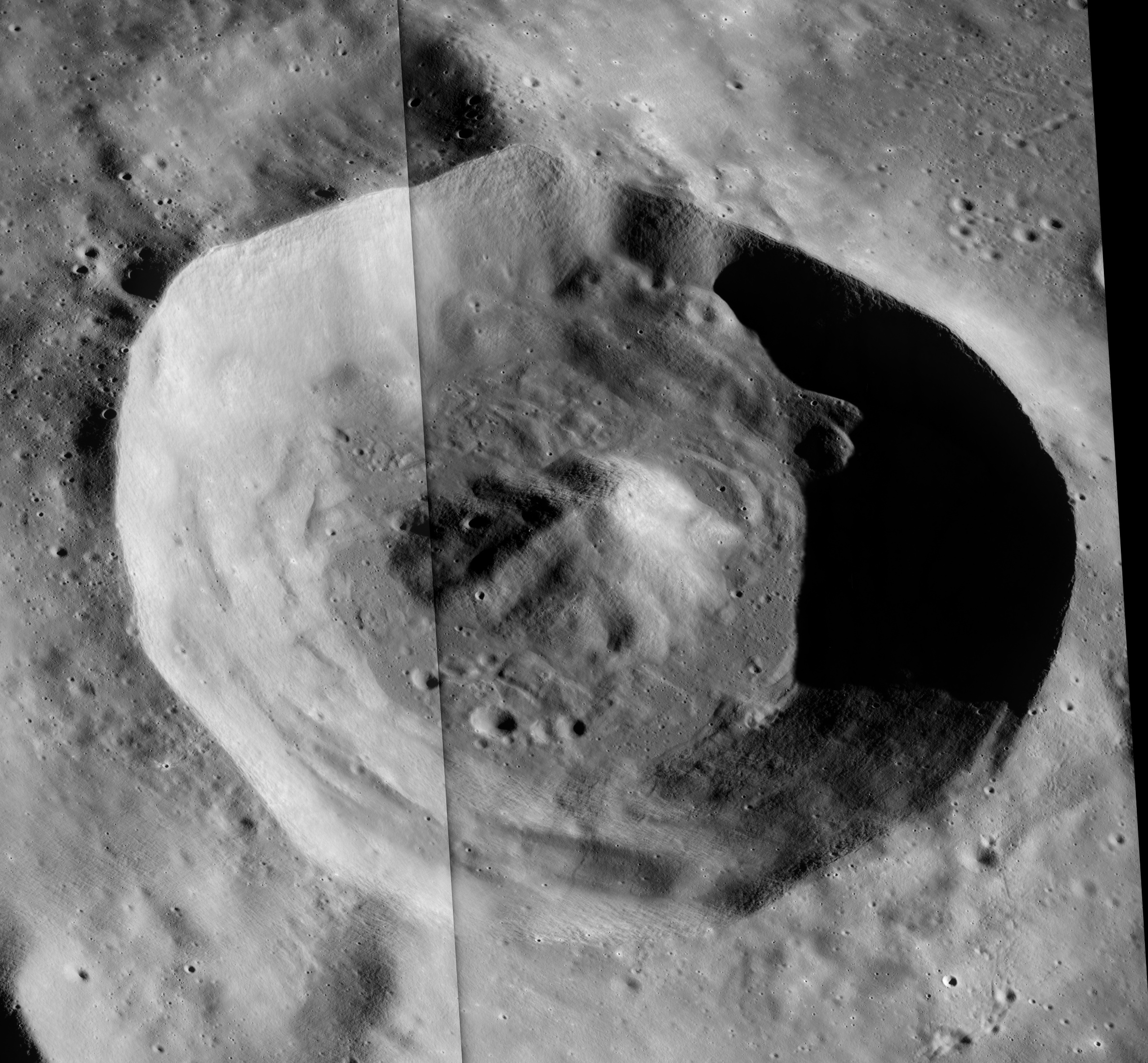 Mosaic of two Apollo 17 panoramic camera images, showing Bok crater, on the far side of the moon, facing south. Sources: AS17-P-1636 AS17-P-1638